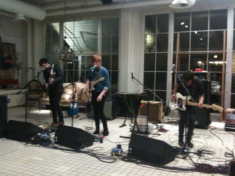 The Northern Irish band Two Door Cinema Club is performing.